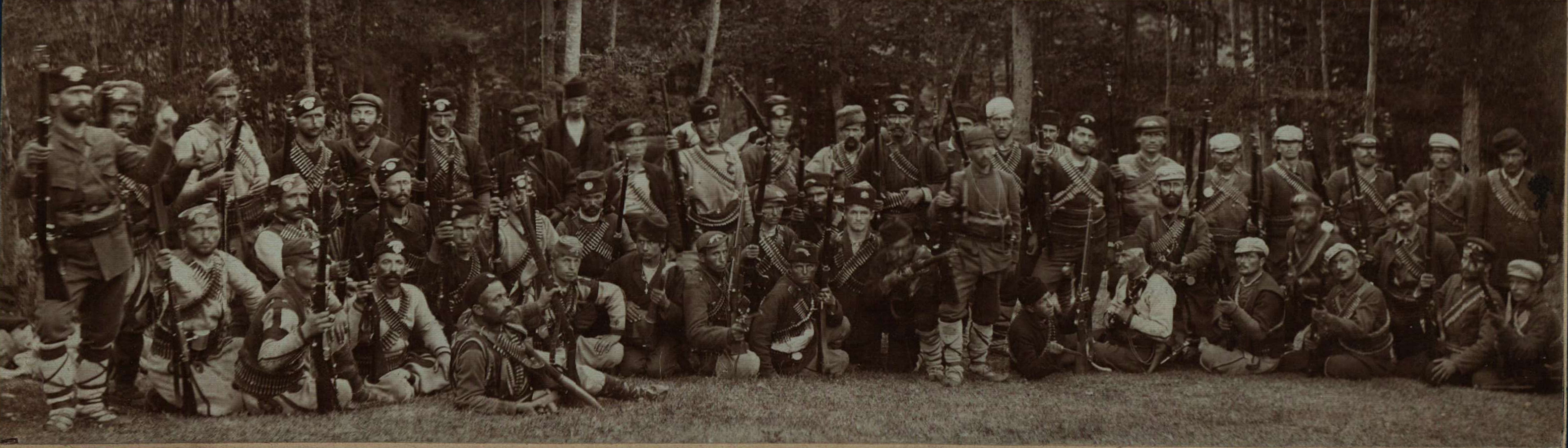 Cheta of bulgarian revolutionary Georche Petrov.